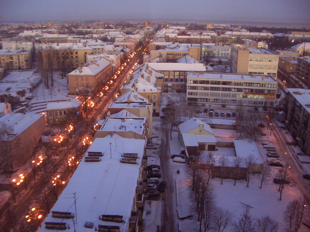 A view over Siauliai from Hotel Siauliai 14th. floor.